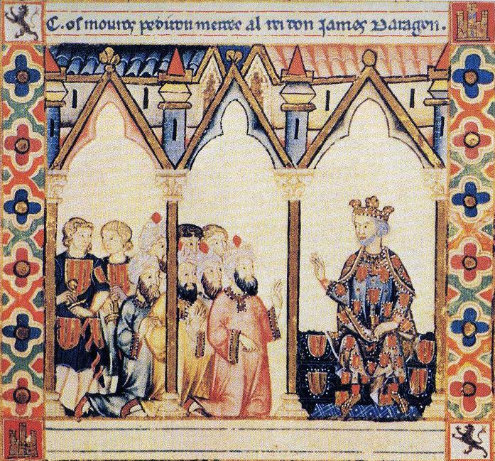 The only existing contemporary image of James I the Conqueror. The Moors request permission from James I (Jaume I)